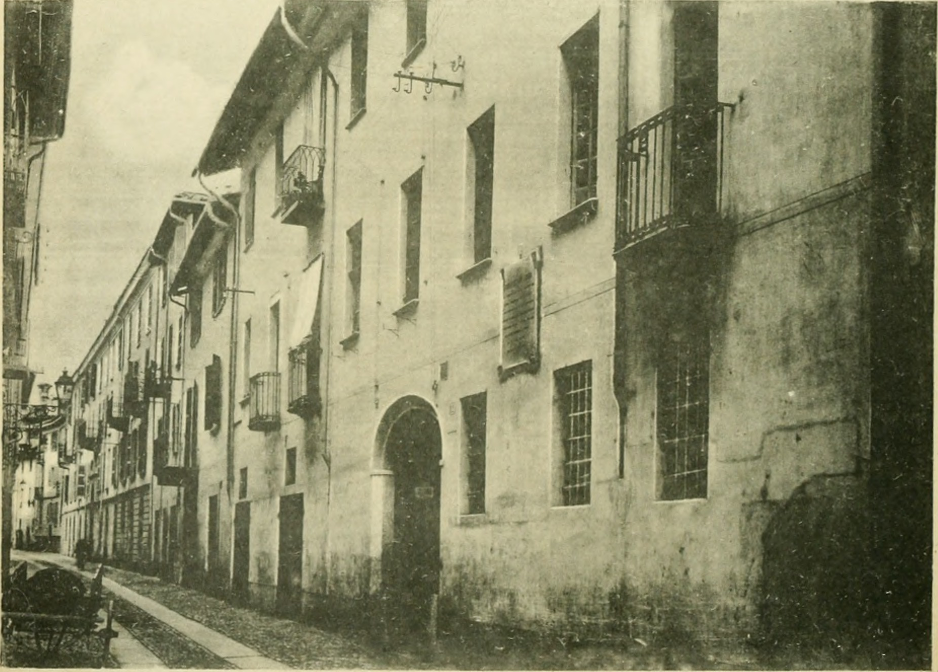 Title: Atti della Reale Accademia delle scienze di Torino Year: 1866-1927. (1860s) Authors: Reale accademia delle scienze di Torino Subjects: Publisher: Torino : L'Accademia Text Appearing Before Image: IGNAZIO PORRO Text Appearing After Image: VIA JJh'L PIXO A PIXEROLO - CASA OVE NACQUE Officina Fototecnica Ing. G Molfese. Torino